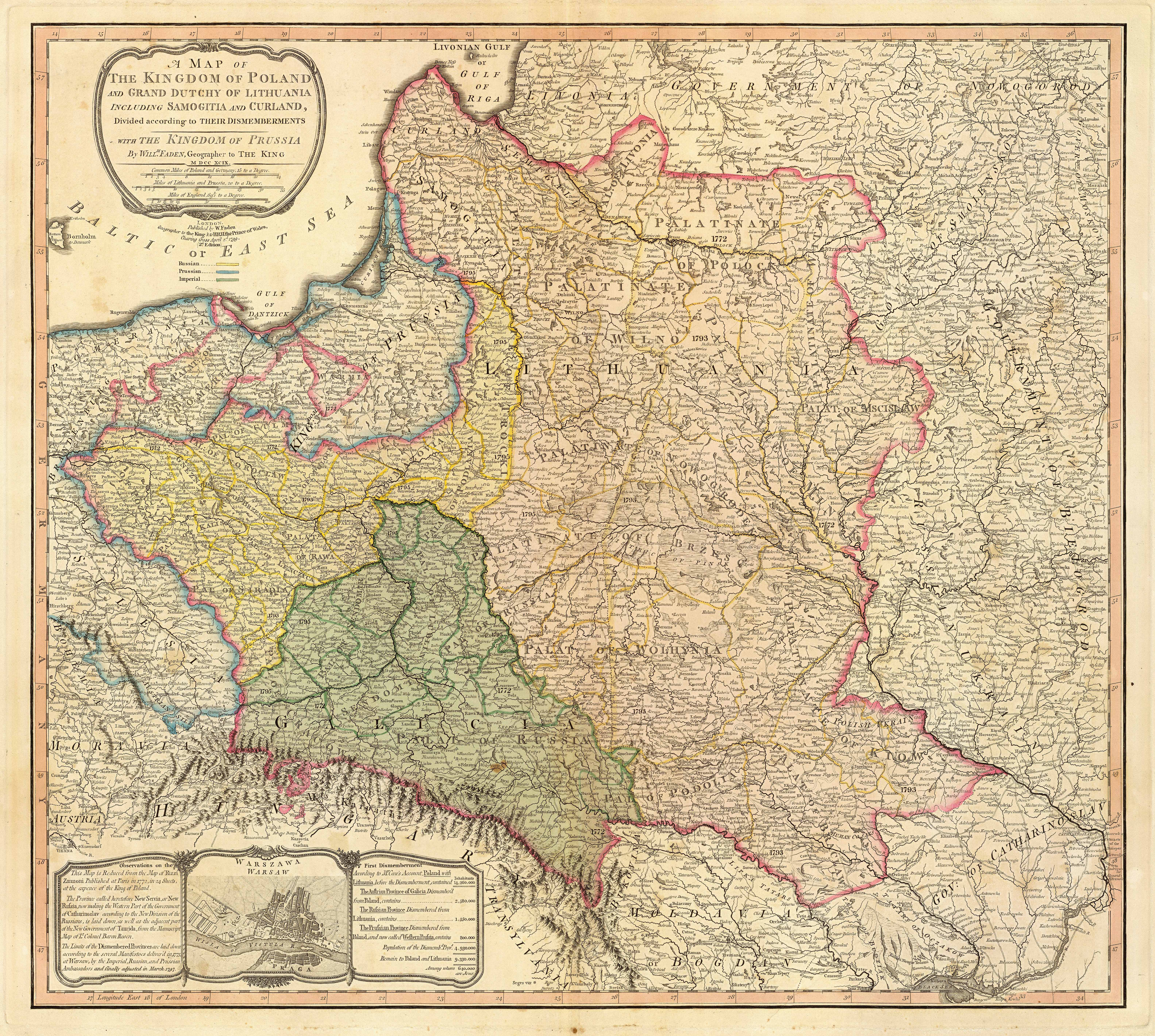 Title: "A map of the Kingdom of Poland and the Grand Duchy of Lithuania including Samogitia and Curland divided according to their dismemberments with the Kingdom of Prussia". A map from 1799 showing how the Polish-Lithuanian Commonwealth was partitioned in 1765-1795 between Prussia, Austria, and Russia. This is an extremely detailed map which lists all the cities and small towns and labels the regions according to their English names. The boundaries former Polish-Lithuanian Commonwealth colored light red. The areas taken by Prussia are colored yellow, those taken by Austria colored green, and those taken by Russia are colored beige. Prussia itself is bordered in blue. Eastern Pomerania and Warmia are shown as part of Prussia but bordered in red as well.